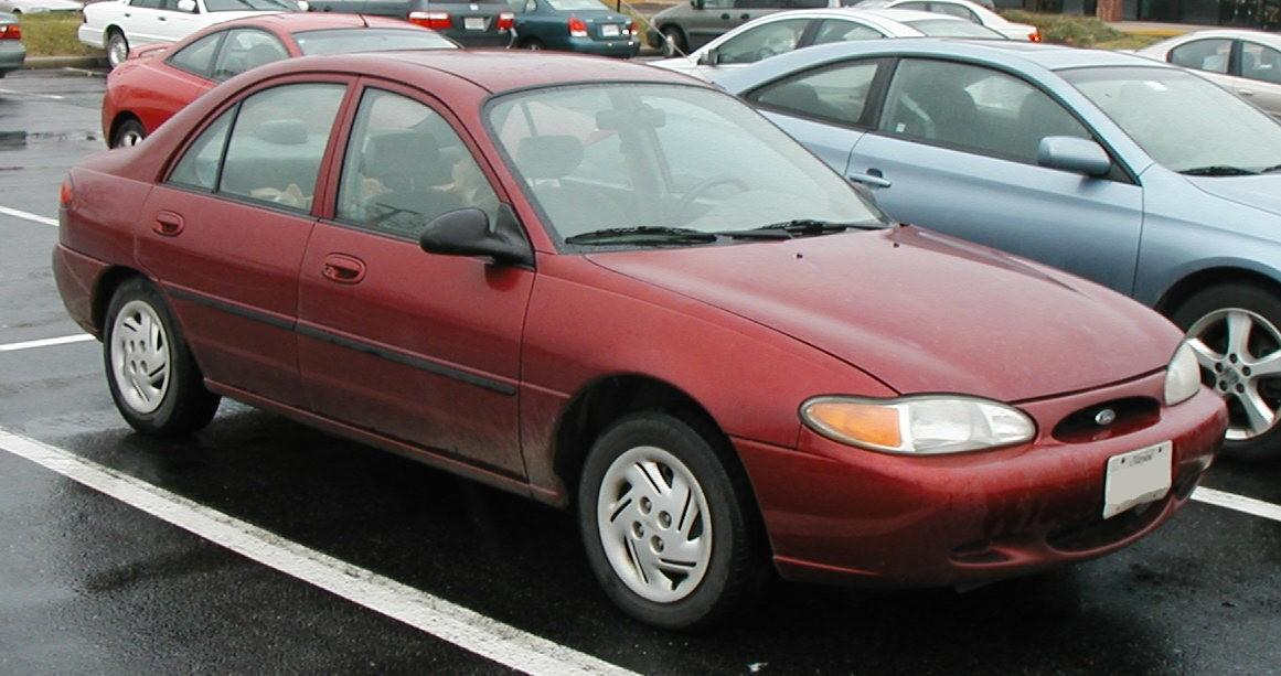 1997-2001 Ford Escort photographed in USA.